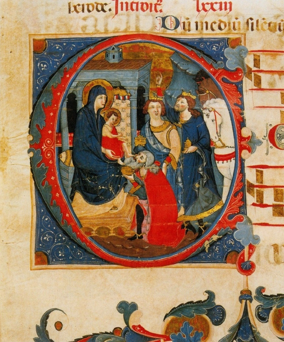 Memmo di Filippuccio. Corale M c.161, before 1317, Museo Nazionale di San Matteo, Pisa